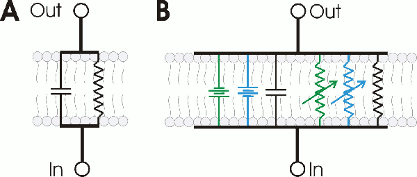 A schematic diagram showing the (A) basic electrical characteristics of a biological membrane as an RC circuit, and (B) a more elaborated view showing the electrical elements necessary to carry currents underlying an action potential. Indexed and png-ed by DaDez 10:53, 6 February 2006 (UTC)